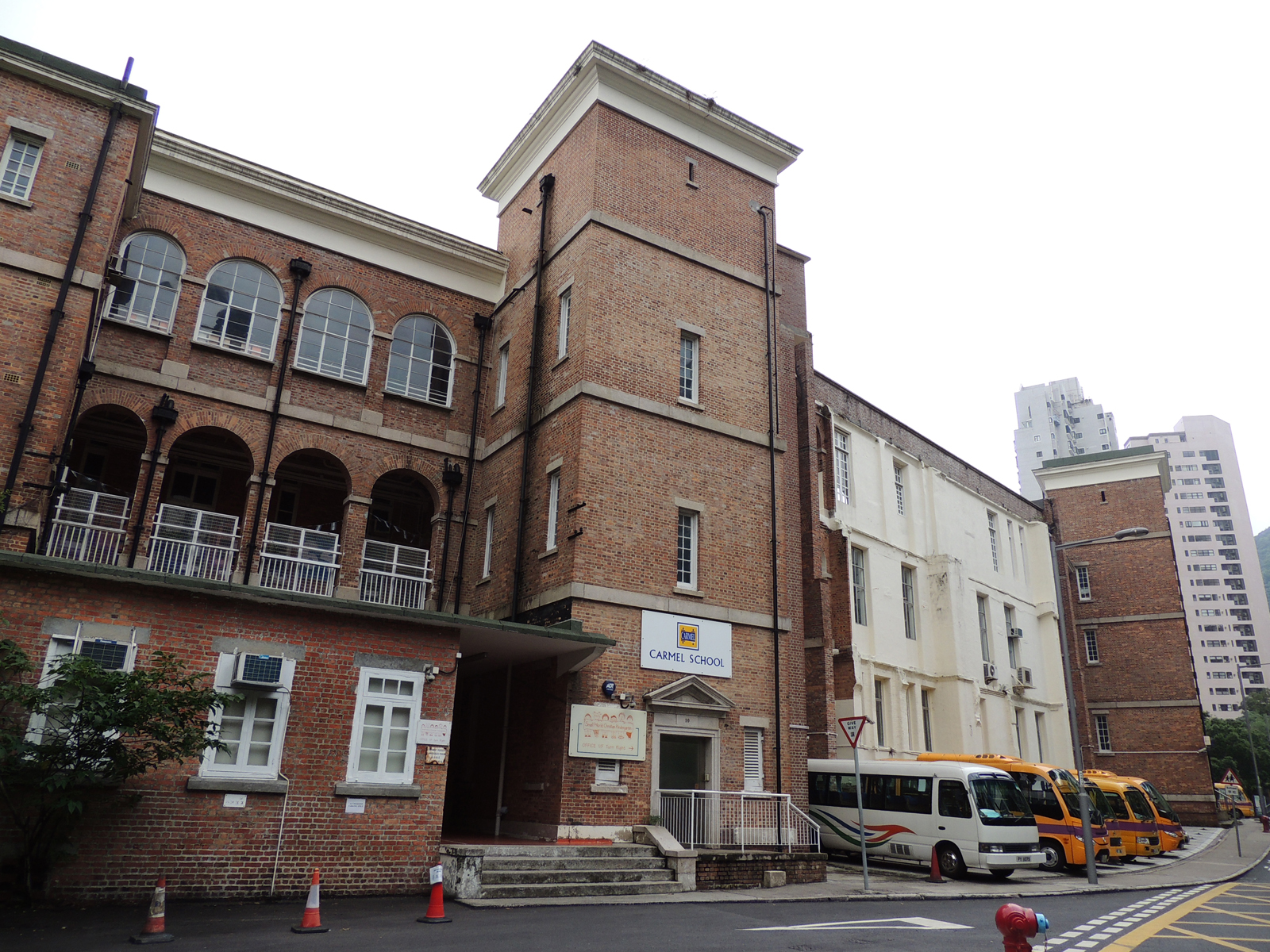 Mid wing, Main Block, Old British Military Hospital